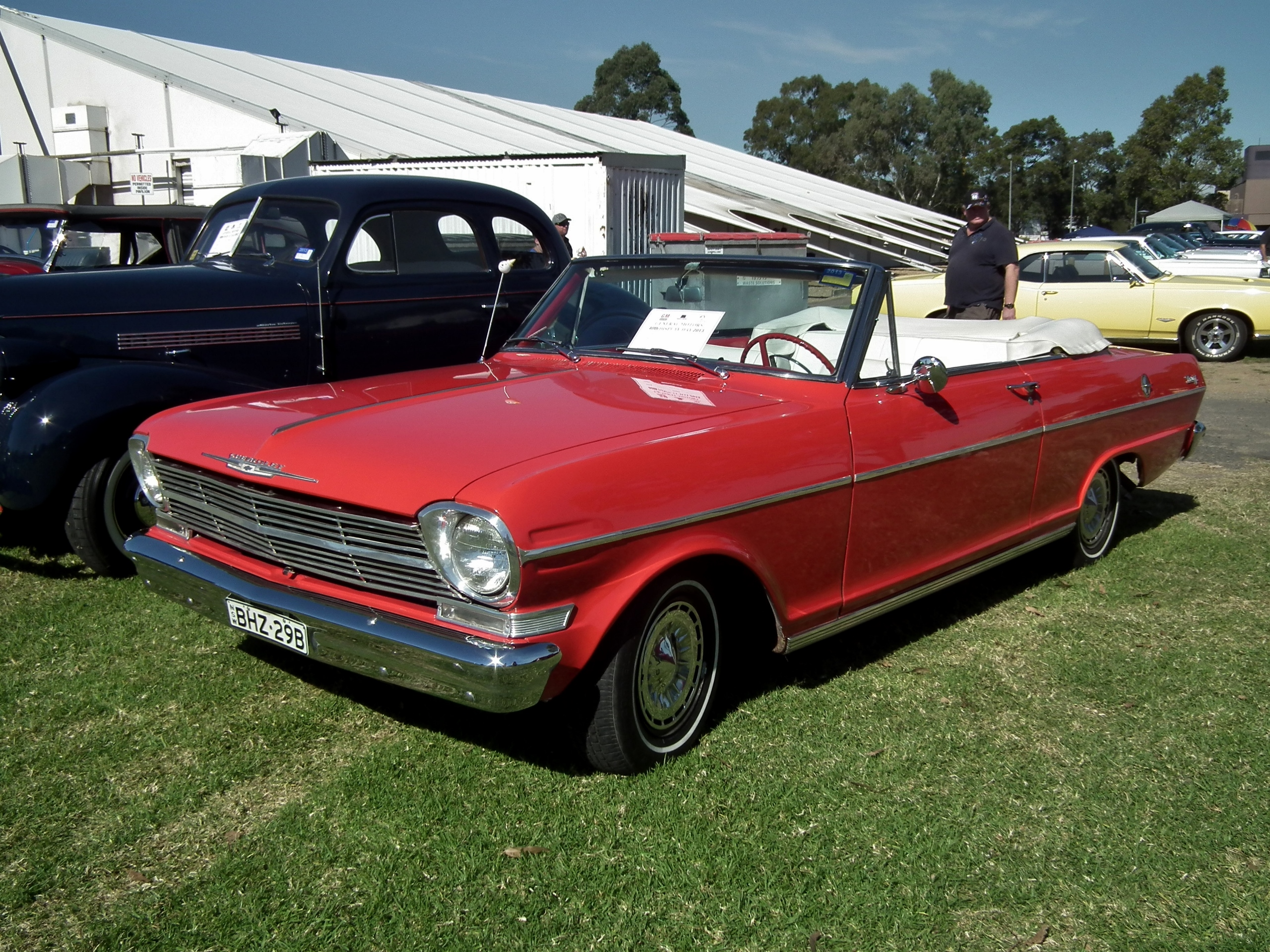 1962 Chevrolet Chevy II Nova 400 convertible. Taken at the 2013 General Motors Display Day, held in the grounds of Penrith Panthers Club, Penrith NSW.